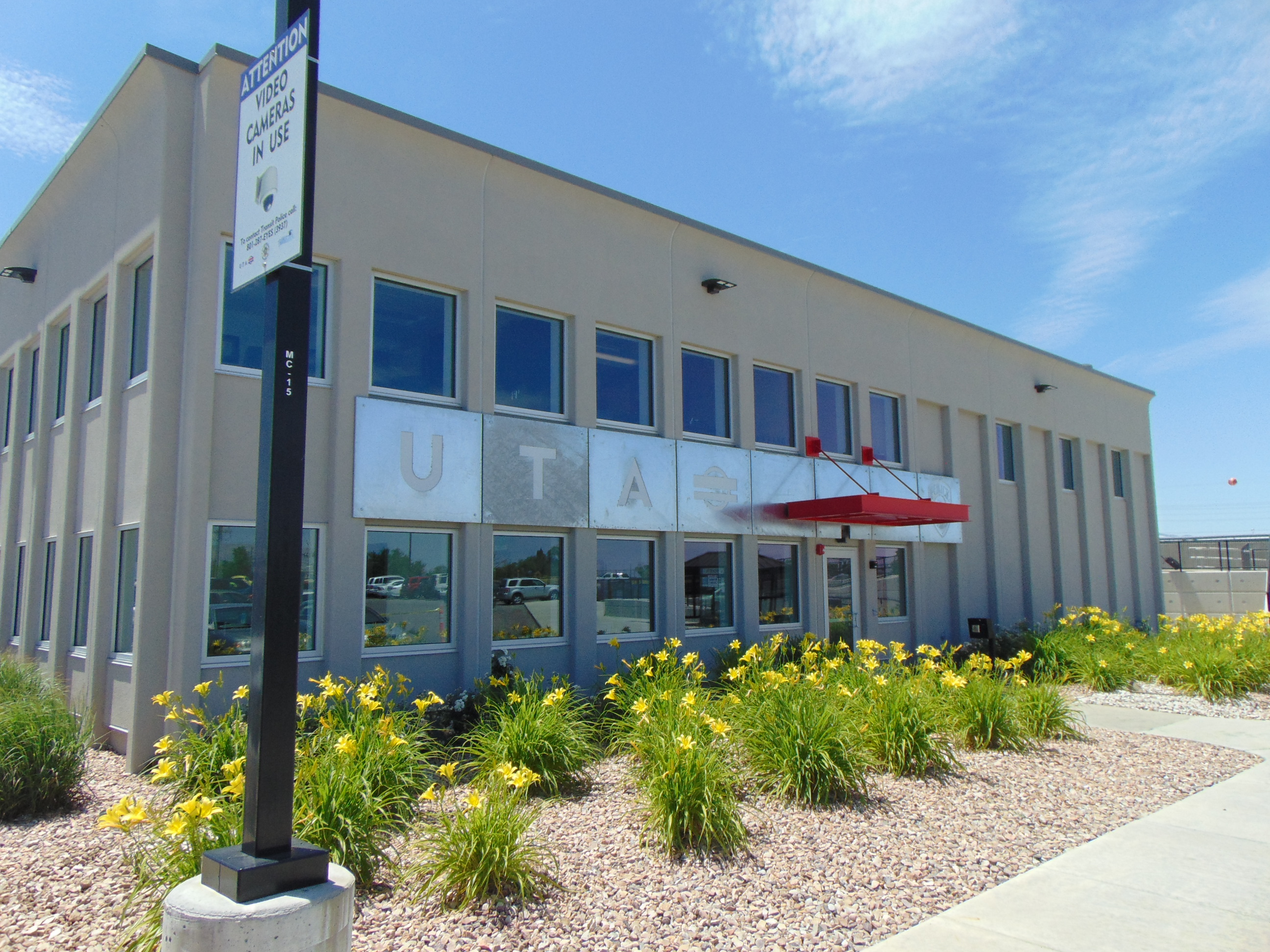 Looking west at the Utah Transit Authority Transit Police station in Murray, Utah, July 2016. The station is located between the Murray Central TRAX station and the Murray FrontRunner station.